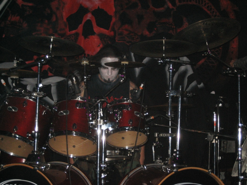 on picture Vesania polish black metal band